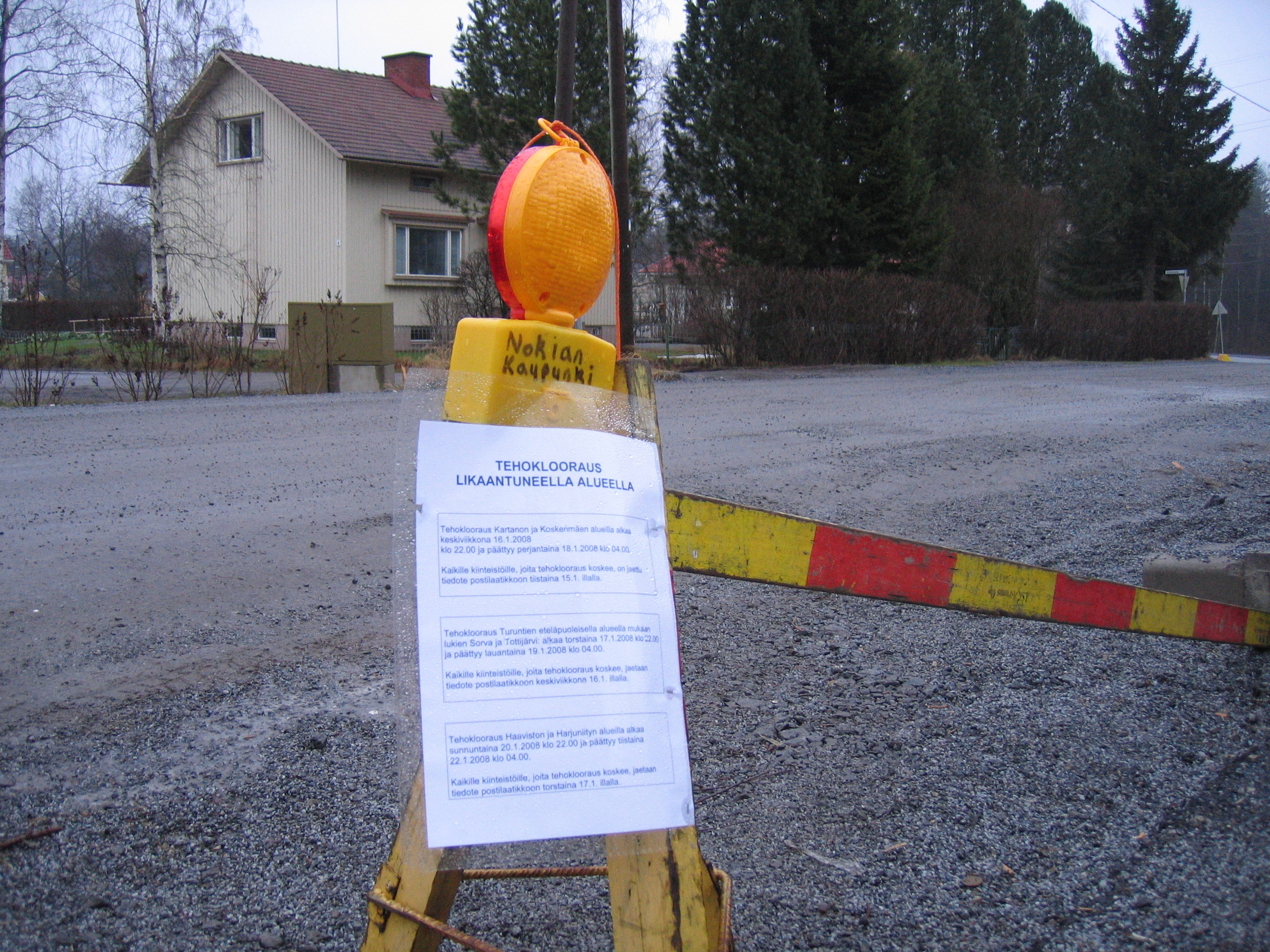 Information leaflet about intensive clorification of water pipelines in Nokia, Finland during the "Nokia water crisis"